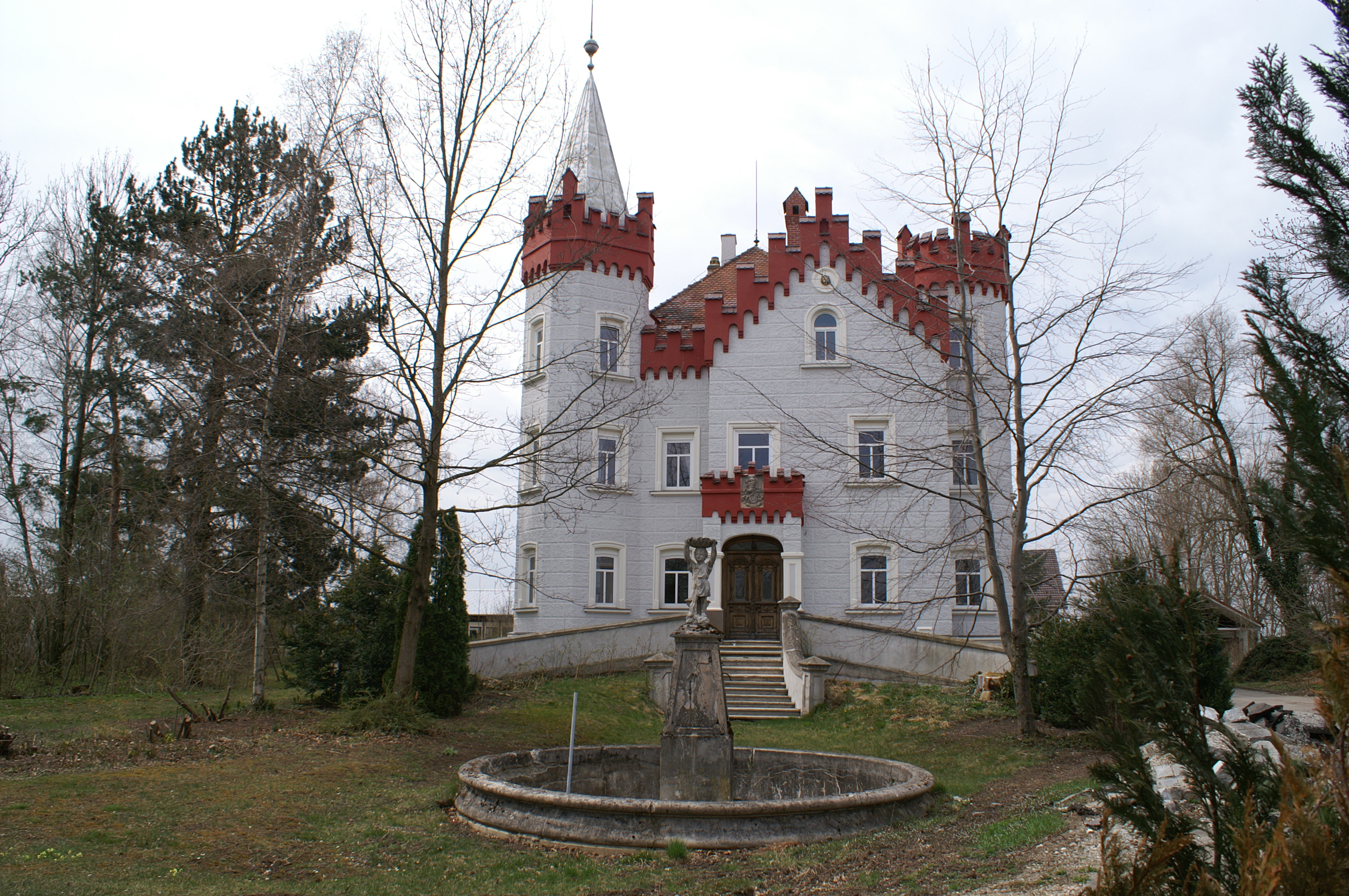 Schloss Rio in Buchloe